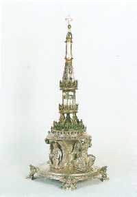 Holy Thorn reliquary in Ariano Irpino, Italy